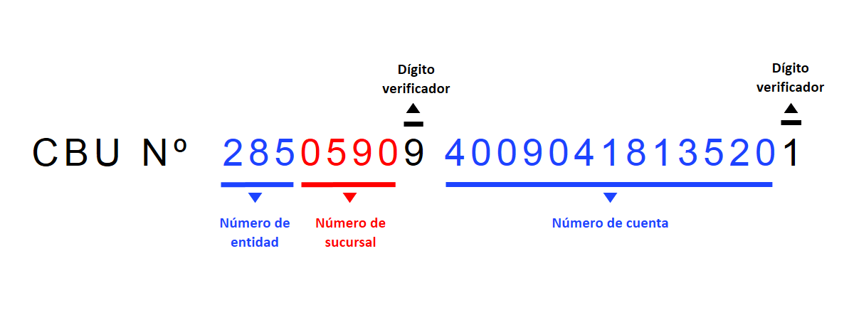 Structure of a Uniform Banking Code (CBU) in Spanish. Based in this example.